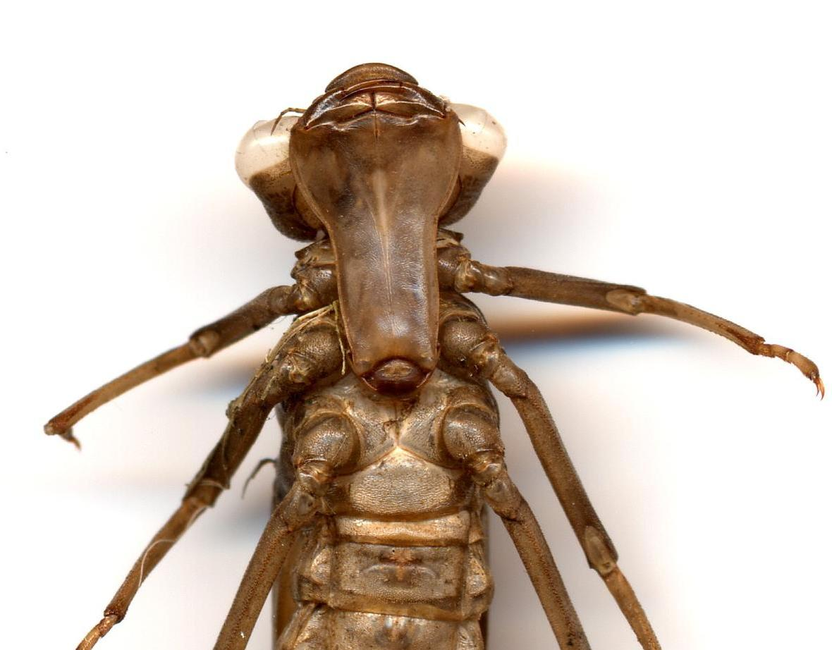 Exuvia of the dragonfly Aeshna cyanea; ventral side of the front body.